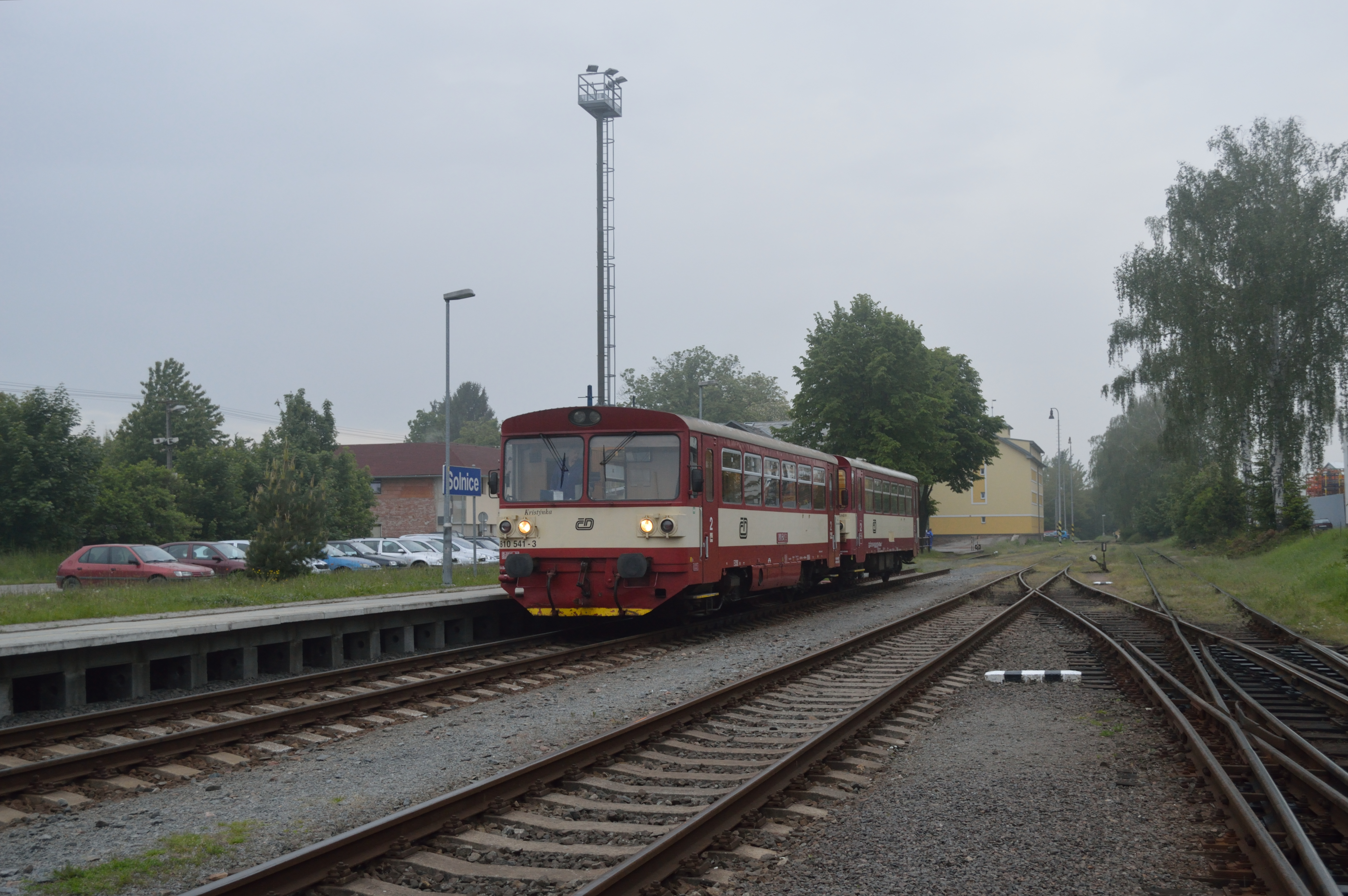 Early morning shot at Solnice taken on 14 May 2014. Having run round its trailer, railcar 810.541 waits to depart on train Os20201, 06:16 Solnice to Dobruška. This branch sees a limited passenger service which tie in with shift changes at the nearby Škoda car plant.